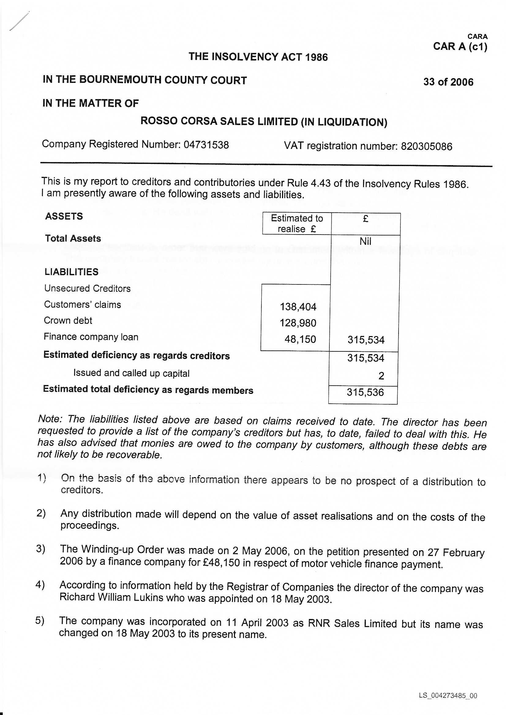 Report to creditors and contributories under Rule 4.43 of the Insolvency Rules 1986, concerning the insolvency of a company registered number 04731538, Rosso Corsa Sales Limited, and its sole director, Richard William Lukins.